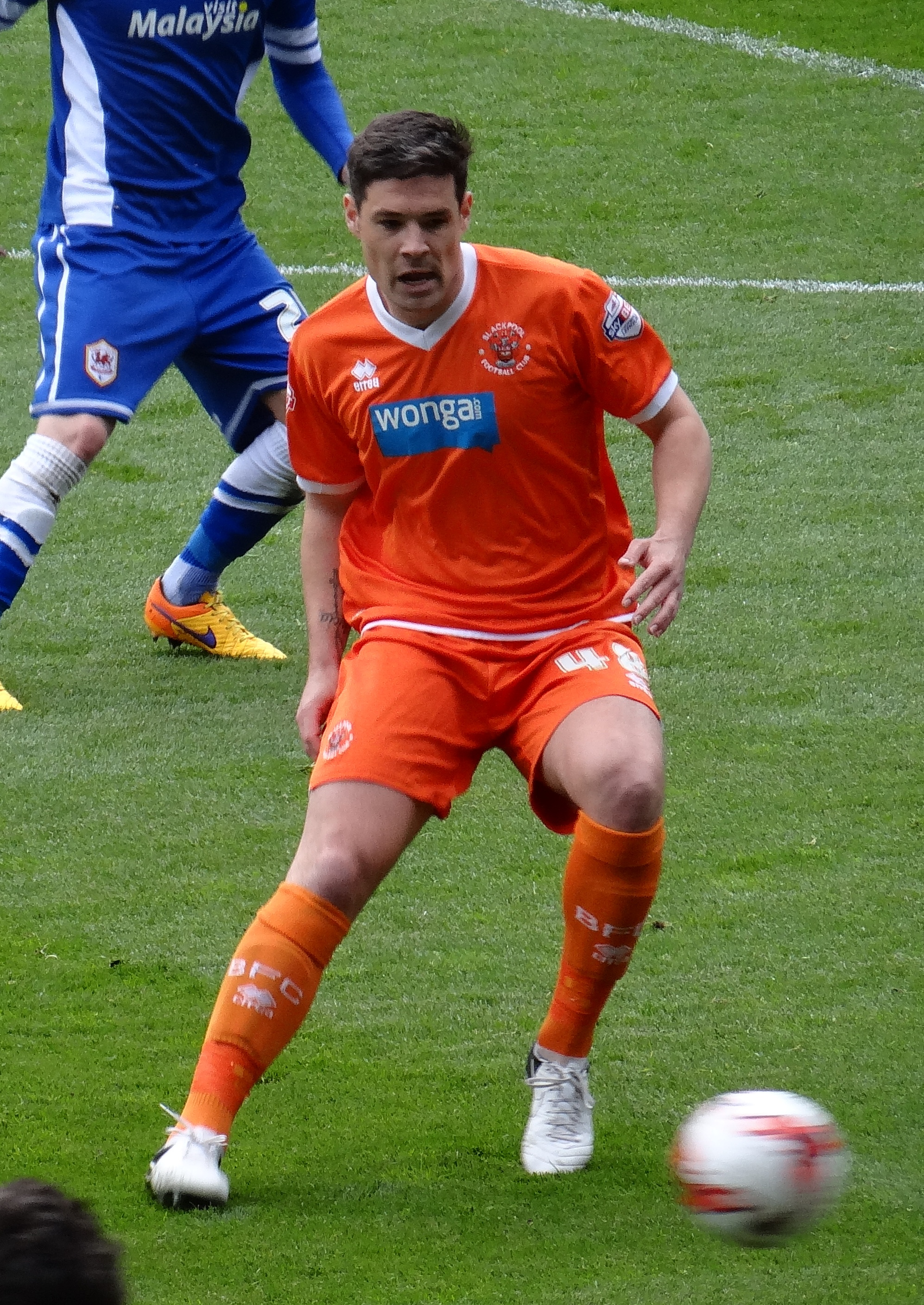 Footballer Darren O'Dea in 2015.